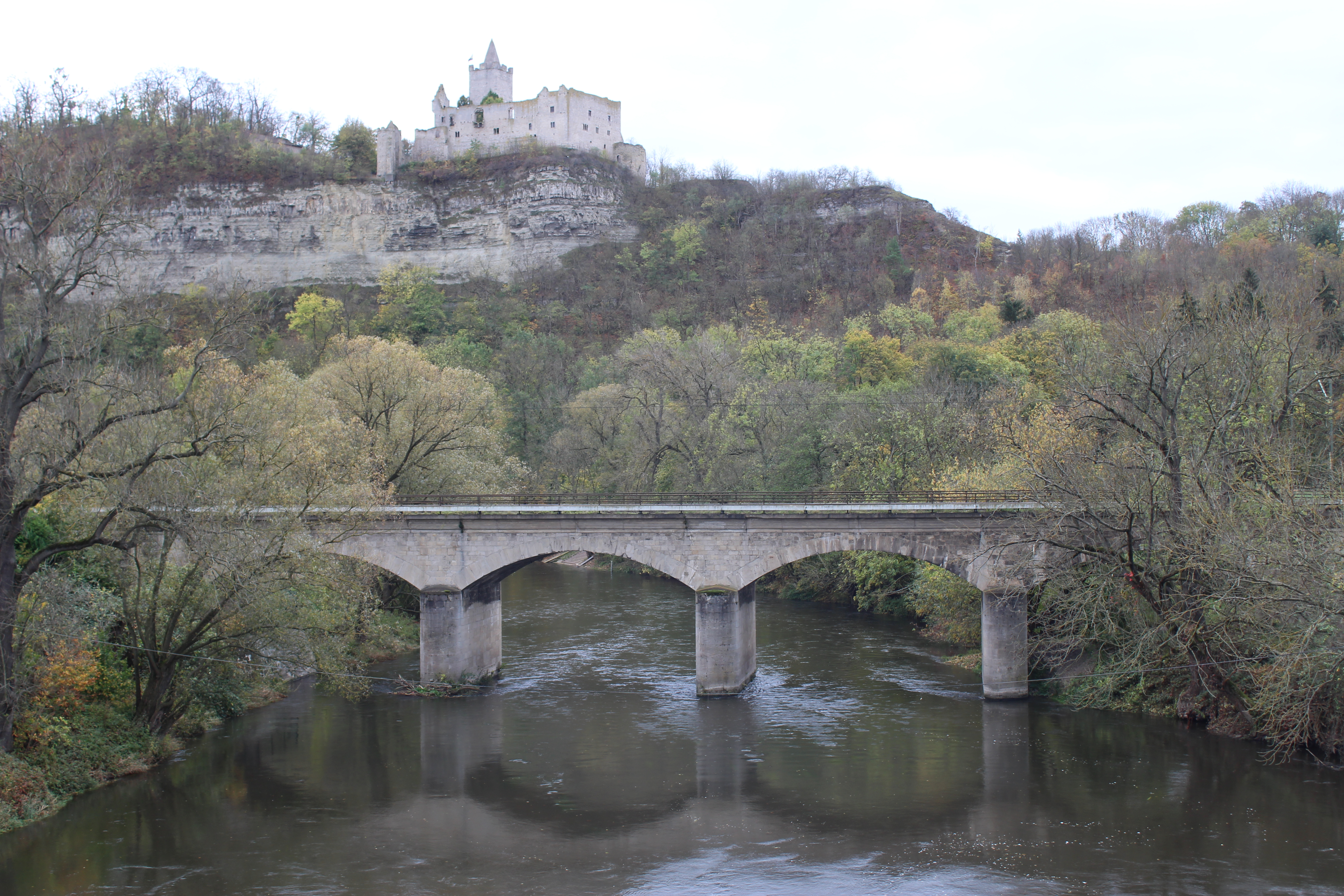 Saale bridge Bad Kösen km 55,2